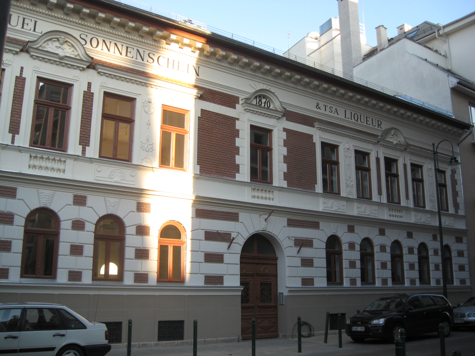 Bokréta utca 15 — Sgraffito on building in Budapest District IX..